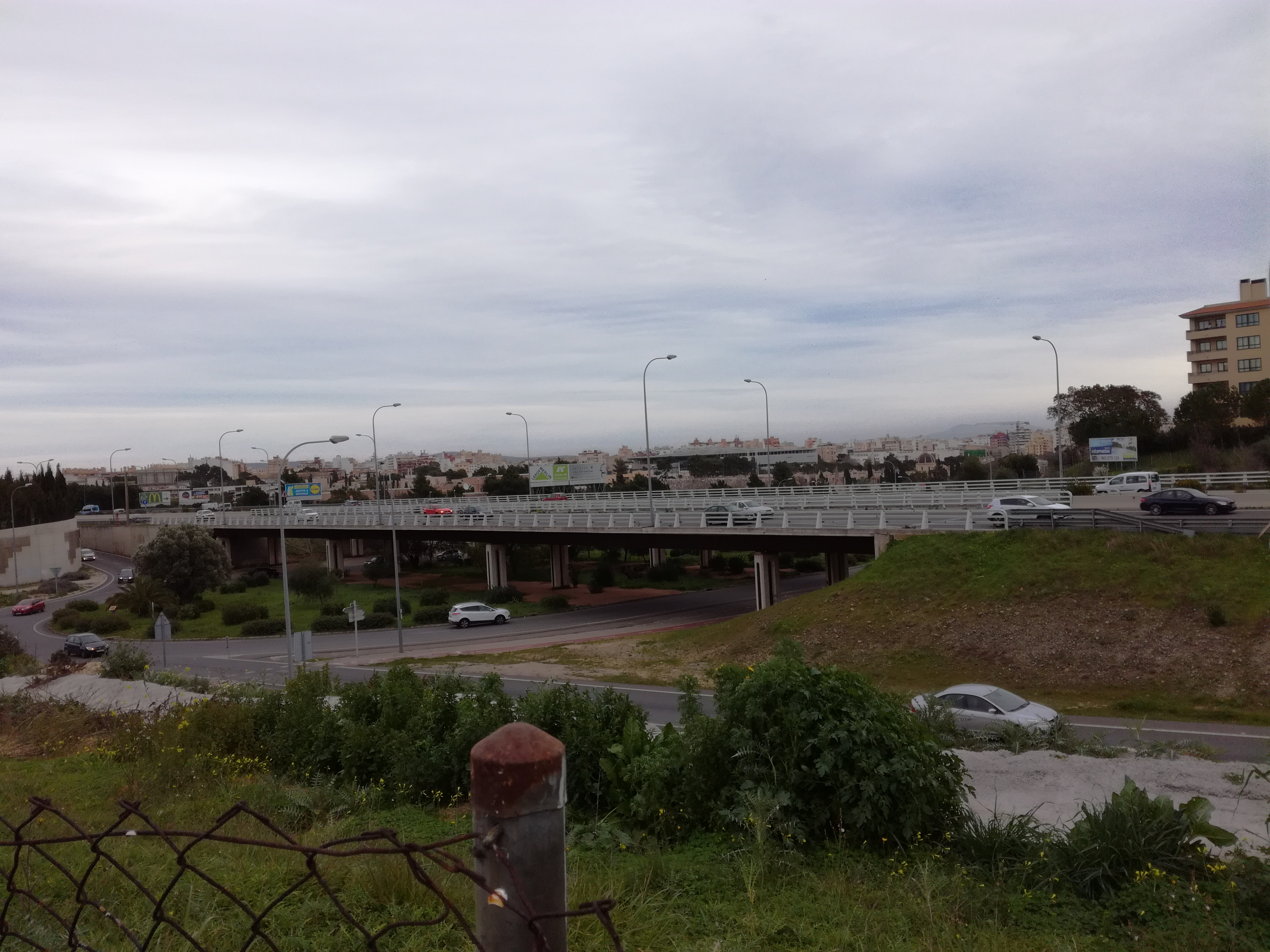 View of the roundabout in the interchange between the Ma-1041 and the Ma-20, in its 7A exit.